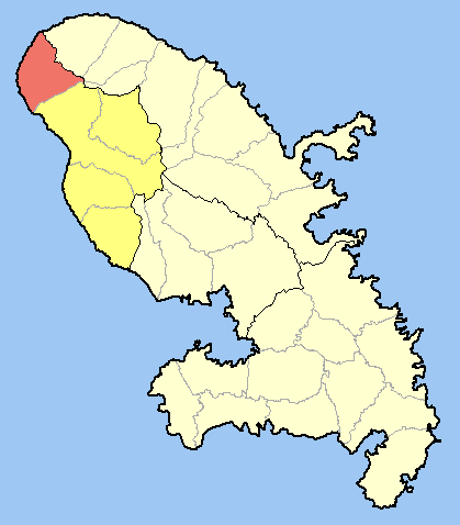 Location of Le Prêcheur within Martinique